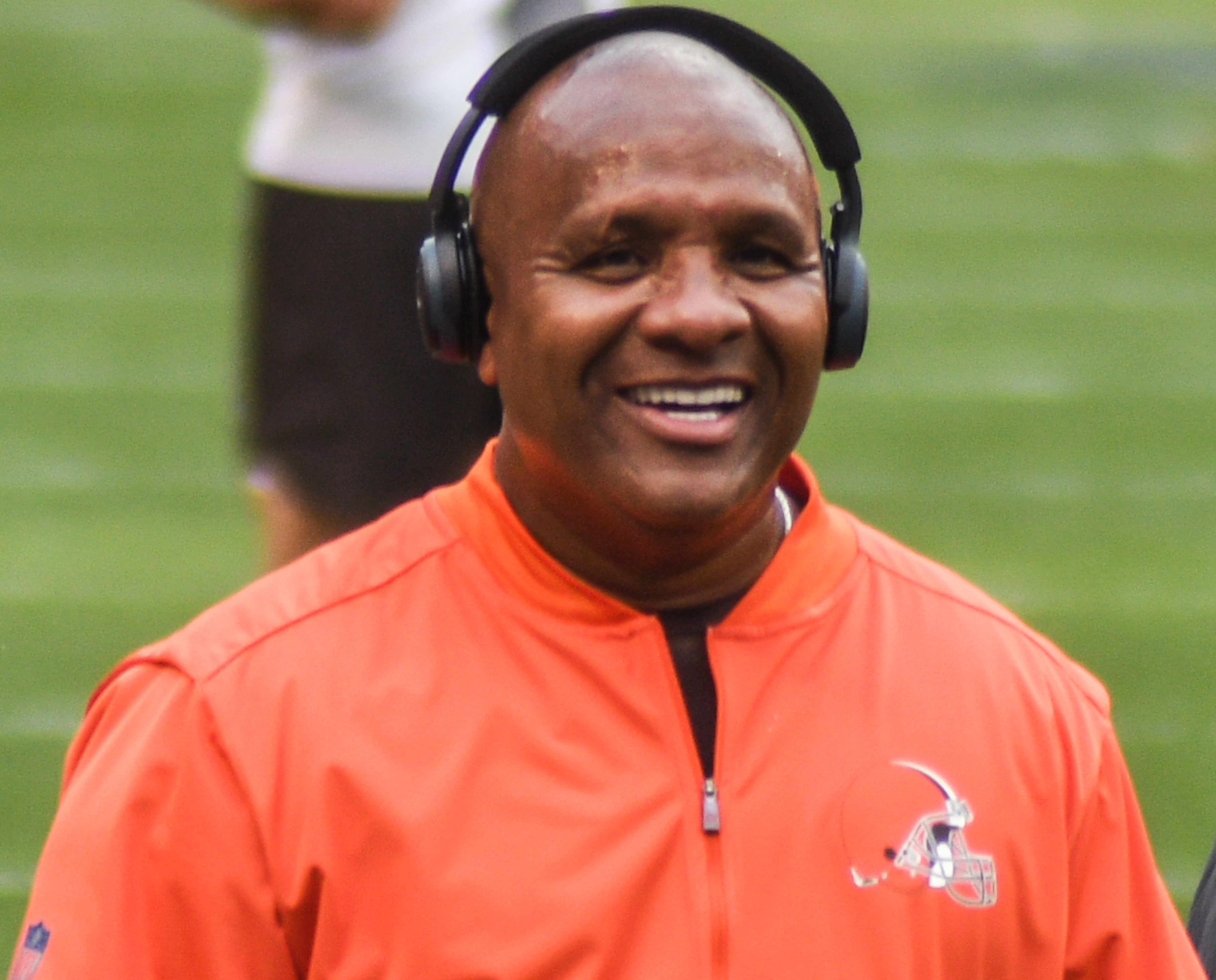 Hue Jackson